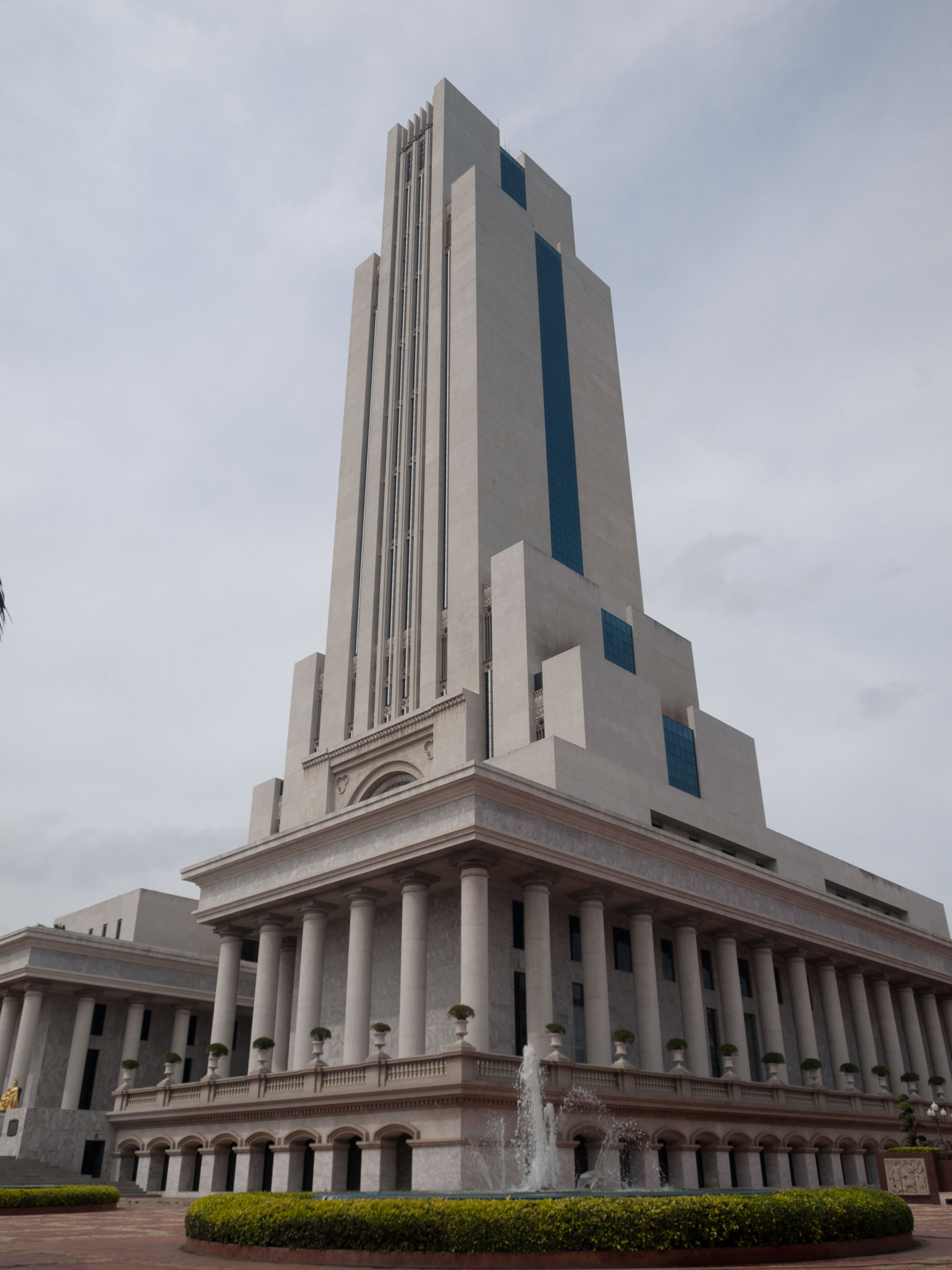 Cathedral of Learning in Assumption University's Suvarnabhumi campus